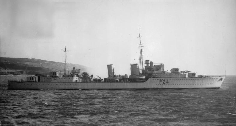 HMS Maori Underway, coastal waters.